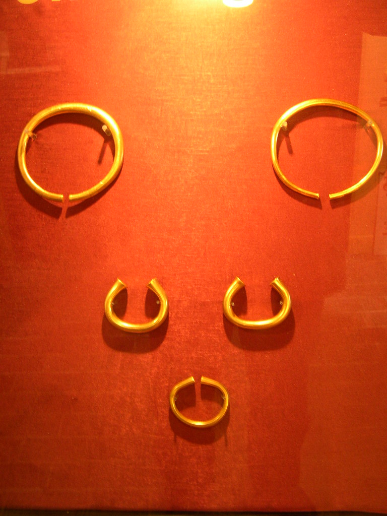 Picture of reproduction of the Milton Keynes Hoard (see "History of Milton Keynes" on en.wikipedia and "Milton Keynes Hoard"